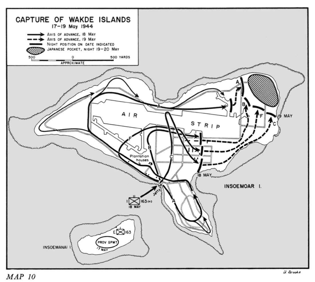 Map of the capture of Wakde Islands 1944